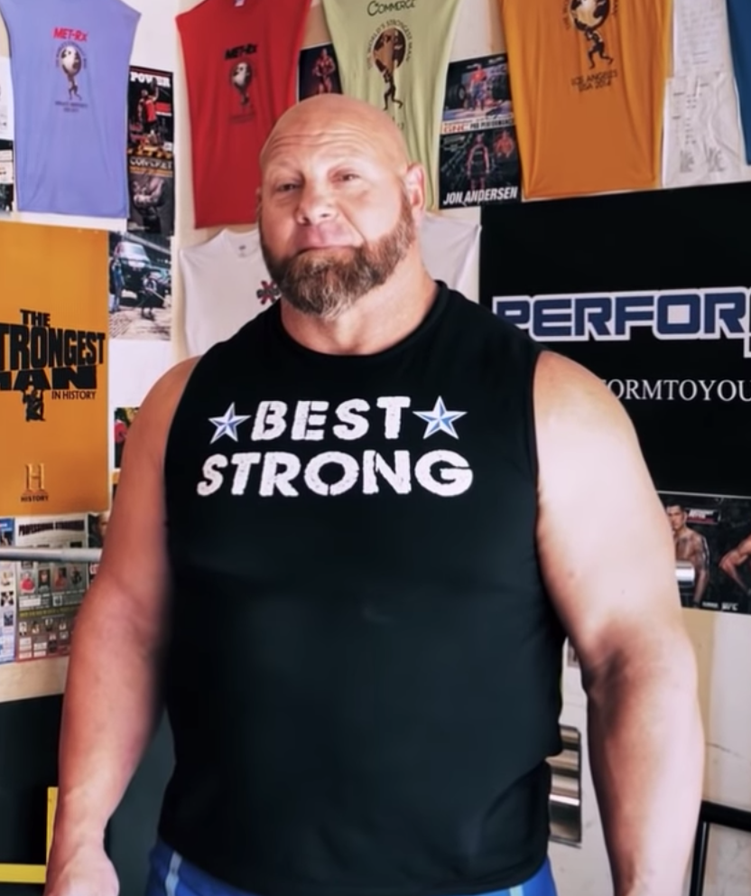 An American strongman Nick Best at his home in Las Vegas, Nevada in late 2019.